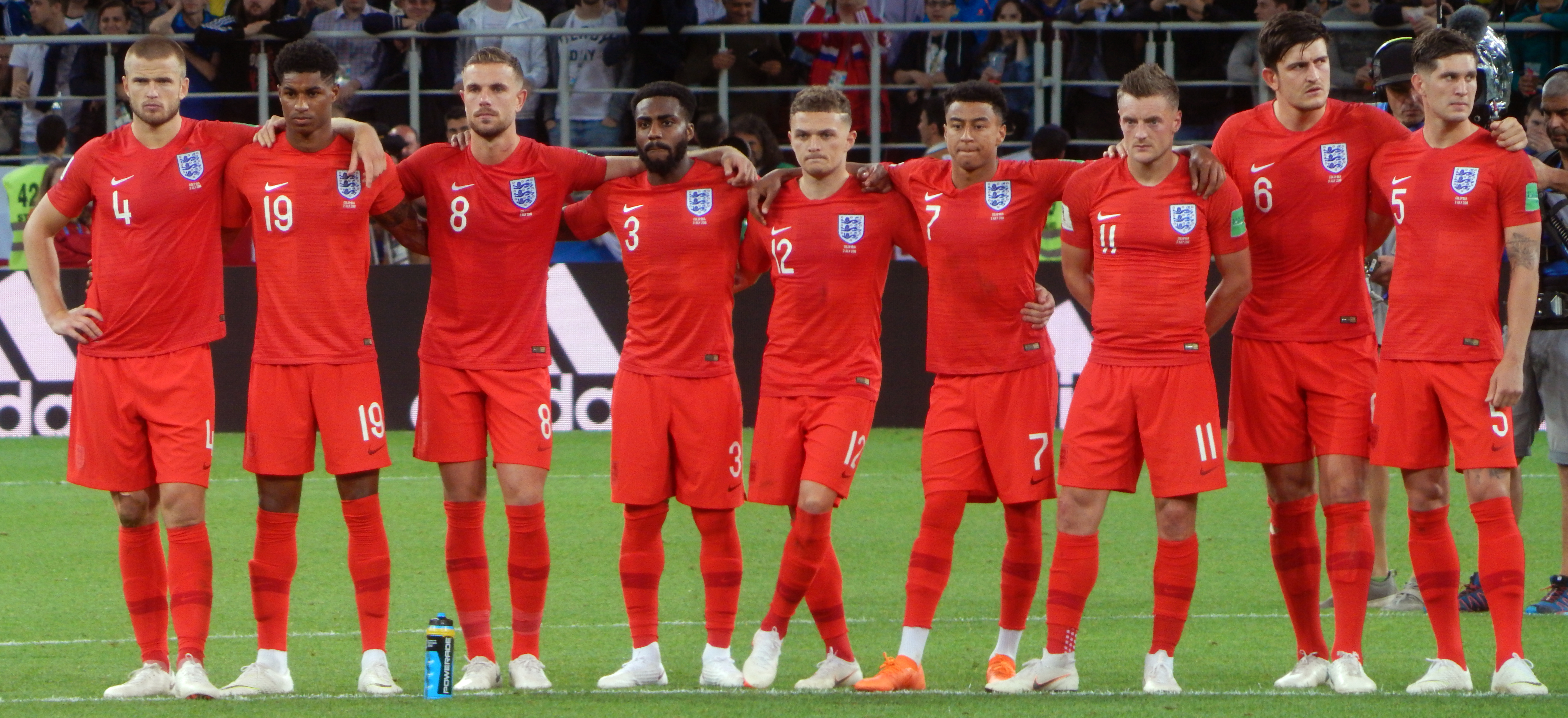 Team England during the penalty shootout against Colombia at the 2018 FIFA World Cup while Harry Kane kicked his penalty kick